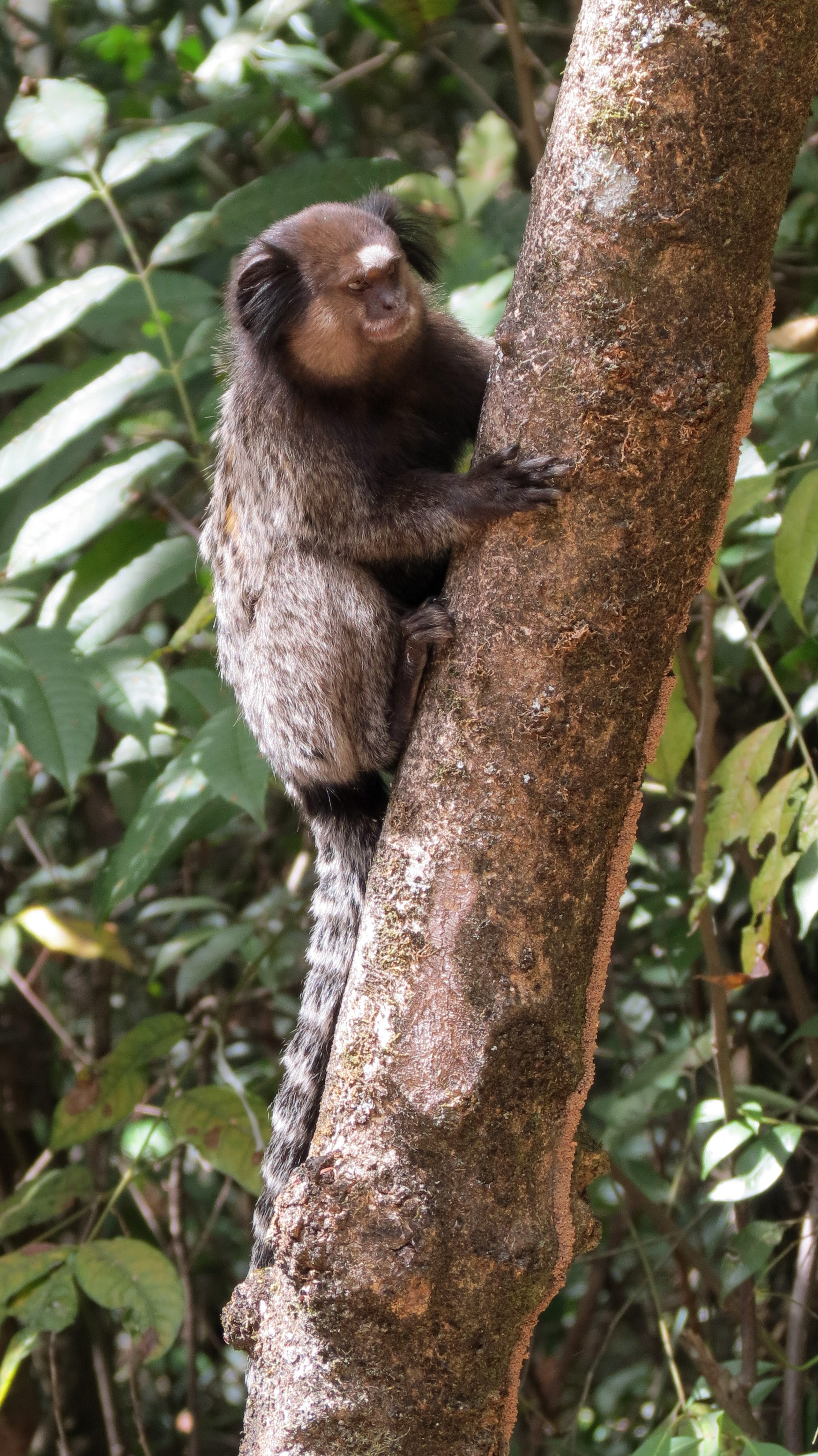 Black-tufted marmoset (Callithrix penicillata) in Belo Horizonte Zoo, Brazil.